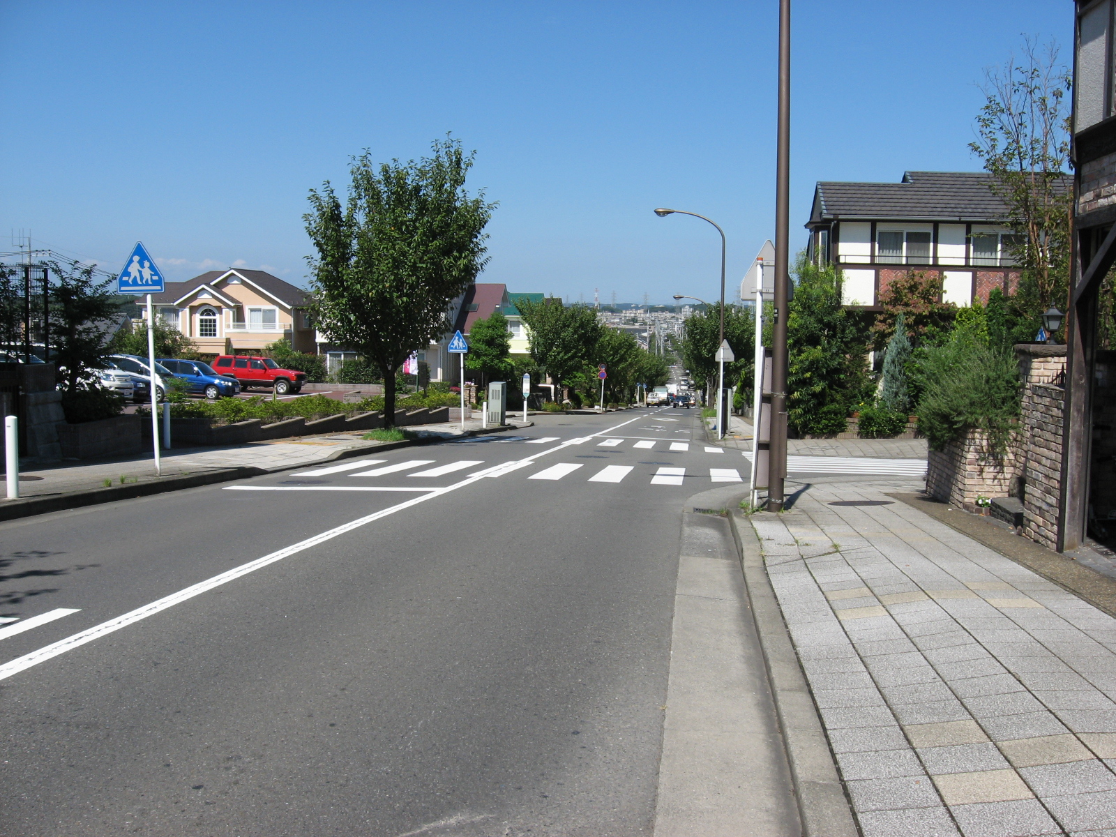 Misuzugaoka (みすずが丘 Misuzu-ga-oka), Aoba Ward, Yokohama City, Kanagawa Pref., Japan.